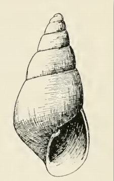 Odostomia donilla Dall & bartsch (possibly a synonym of Odostomia gravida Gould, 1853); Pyramidellidae